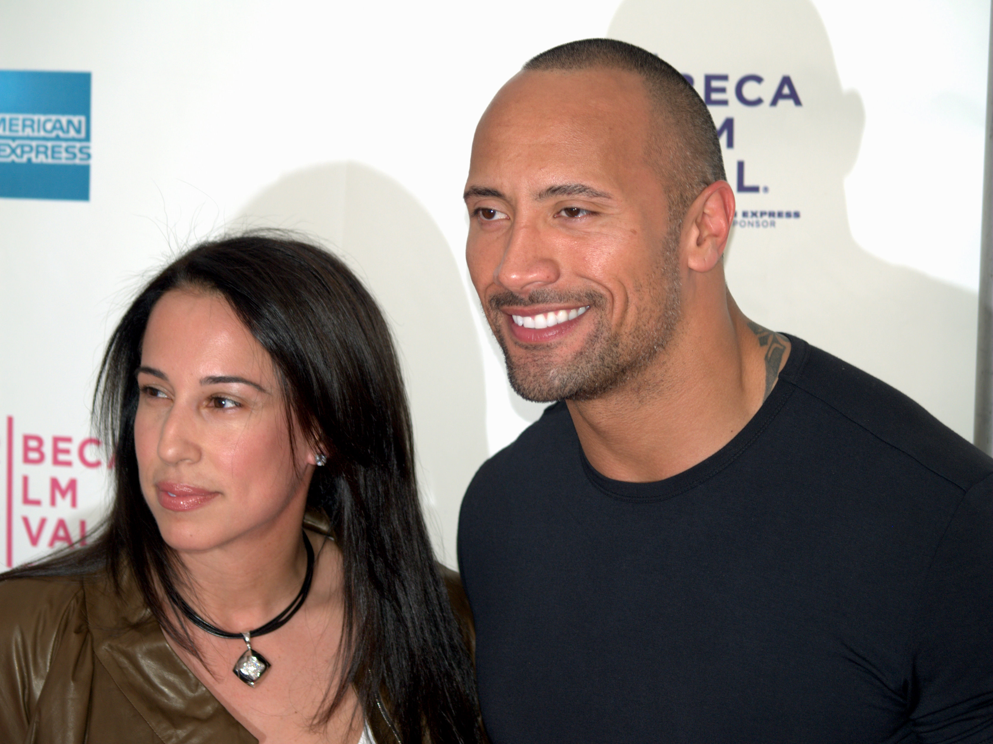 Dwayne Johnson and his wife, Dany Garcia, at the 2009 Tribeca Film Festival. Photographer's blog post about this photo.